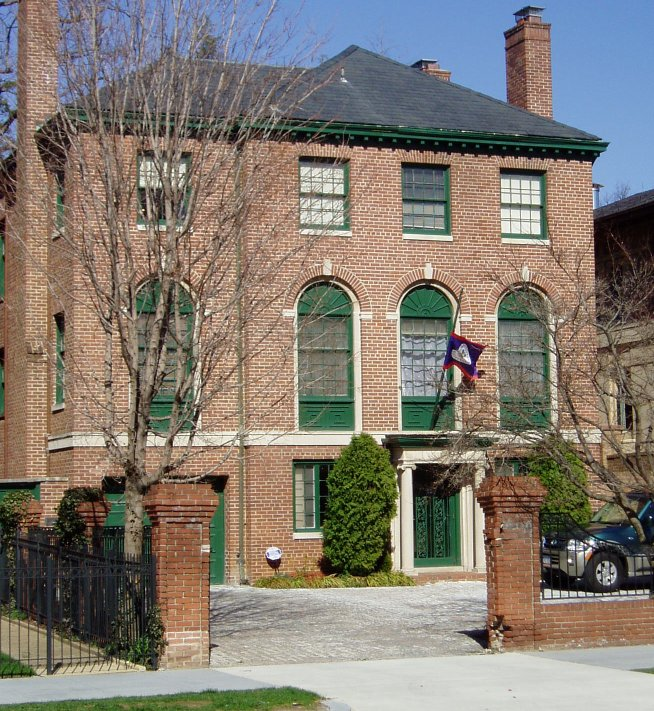 Embassy of Belize, Washington, D.C.